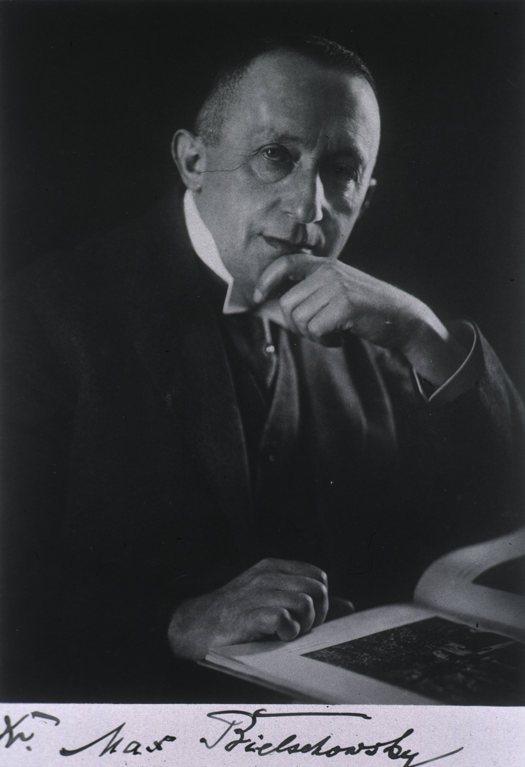 Max Bielschowsky